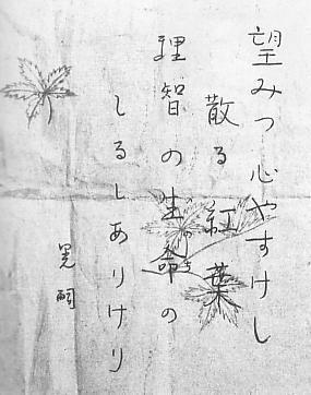 Death poem by Akitsugu Yamazaki